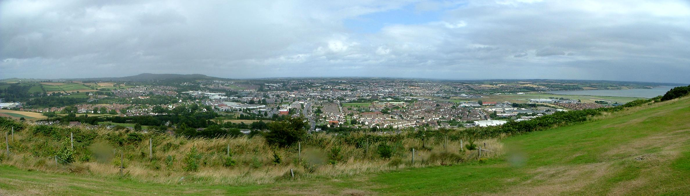 Newtownards in Northern Ireland